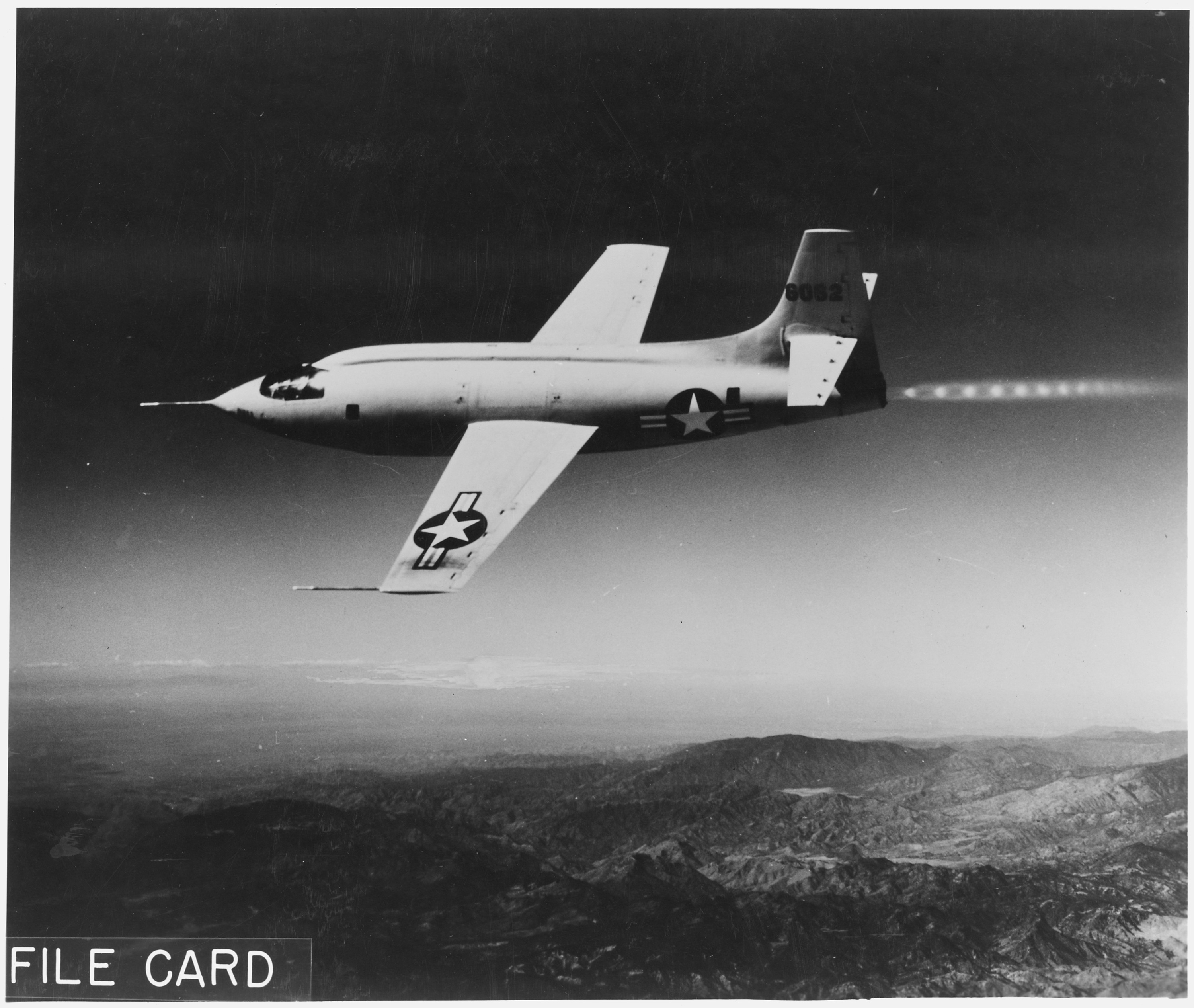 Scope and content: Photograph of the X-1, the first manned aircraft to go faster than the speed of sound.